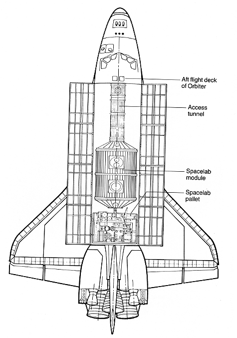 Diagram of the shuttle with a typical Spacelab cargo